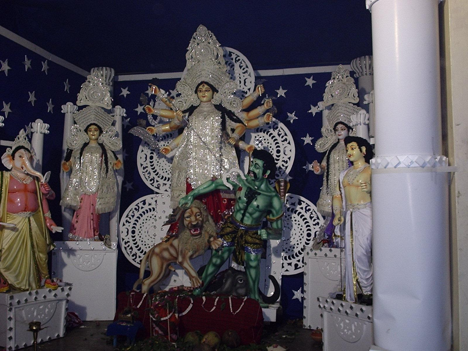 Goddess Durga with her "children" Ganesha, Saraswati, Laxmi, Kartik on Durga-Puja festival, fighting the Dämon Mahisasura